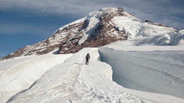 Split-boarder skinning up past open crevasses on the Coleman Glacier of Mt. Baker, North Cascades, WA. Photo taken October, 2009.